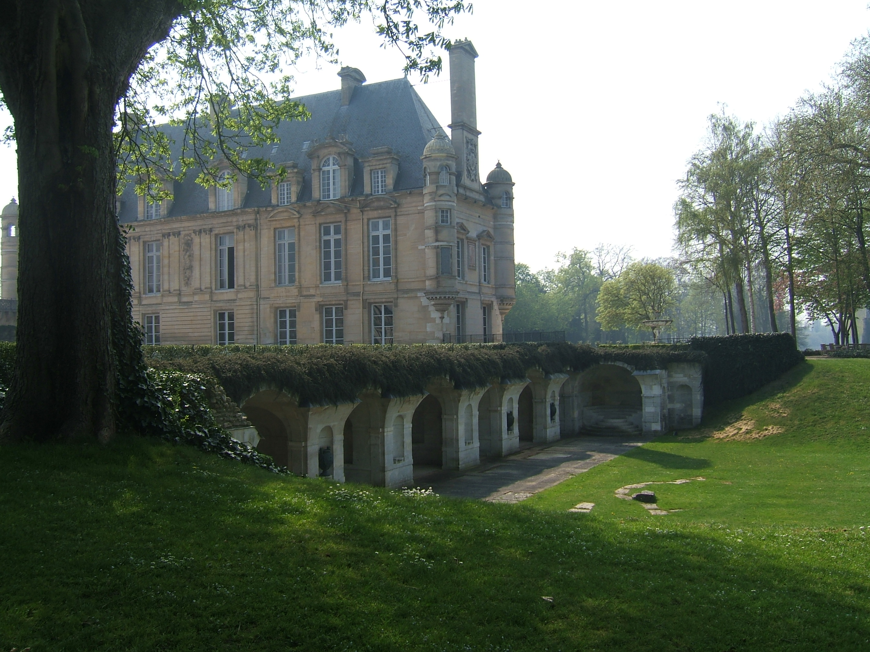 The Château d'Anet